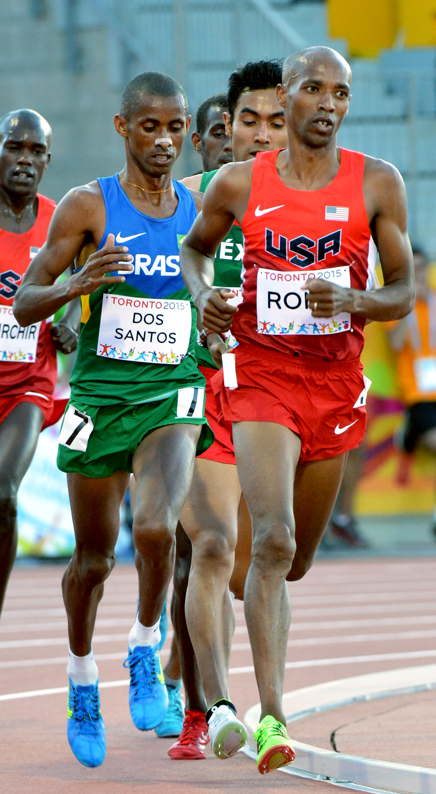 Spc. Aron Rono of the U.S. Army World Class Athlete Program and Team USA/WCAP teammate Spc. Shad Kipchirchir bookend the lead pack of runners in the waning laps of the men's 10,000 meters at the 2015 Pan American Games in Toronto on July 21. Rono took the silver medal with a time of 28 minutes, 50.83 seconds and Kipchirchir finished fourth in 29:01.55. Ahmed Mohammed (28:49.96) of Canada won the race and Juan Luis Barrios (28:51.57) of Mexico took the bronze. U.S. Army photo by Tim Hipps, IMCOM Public Affairs